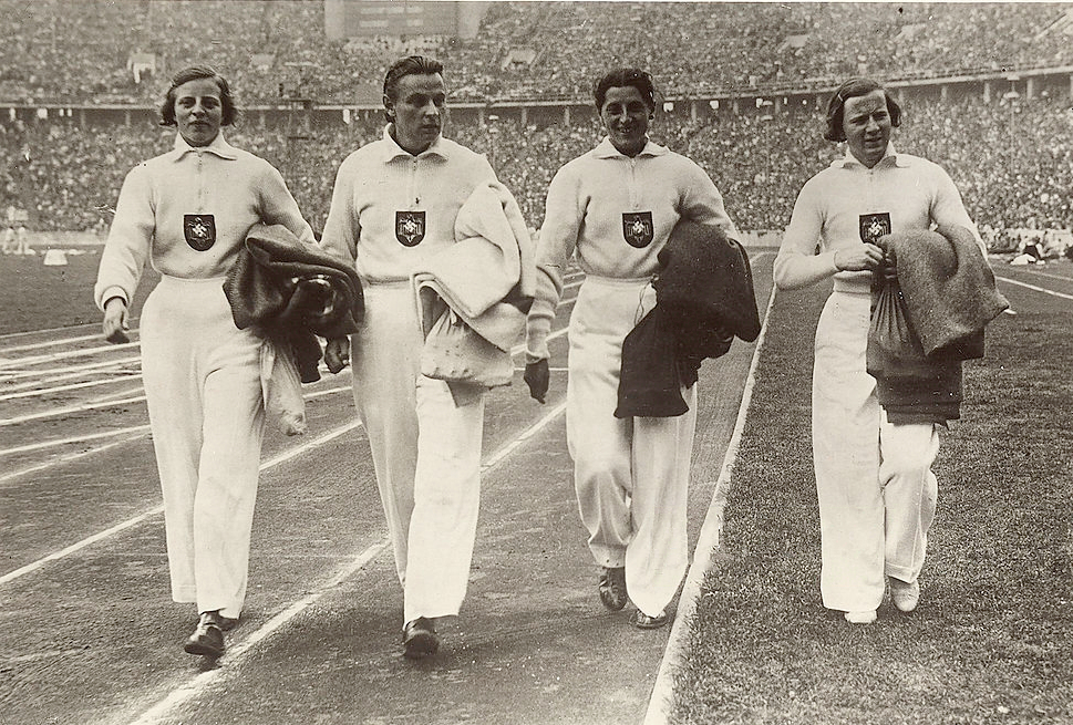 Left-right: Emmy Albus, Käthe Krauß, Marie Dollinger, Ilse Dörffeldt at the 1936 Olympics